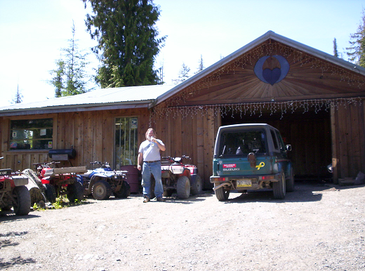 Edna Bay AK General Store and Post Office, July 2006 by Roger DiPaolo